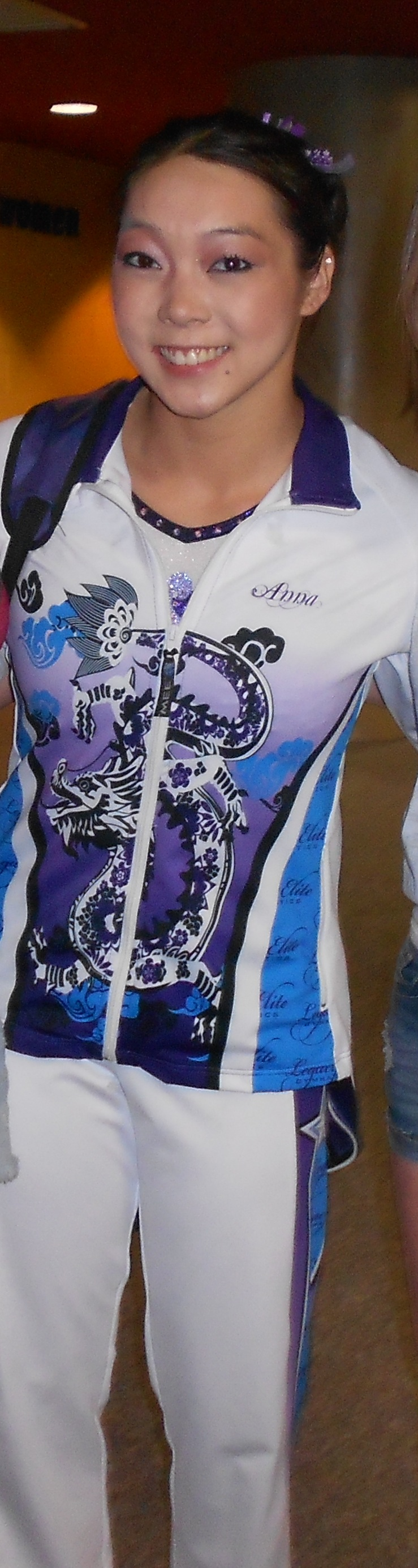 Anna Li at 2012 Secret US Classic